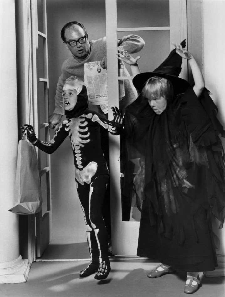 Publicity photo of American actors, (top) Charles Nelson Reilly, (children; L–R) Harlen Carraher and Kellie Flanagan promoting the NBC television series The Ghost & Mrs. Muir, 1969.